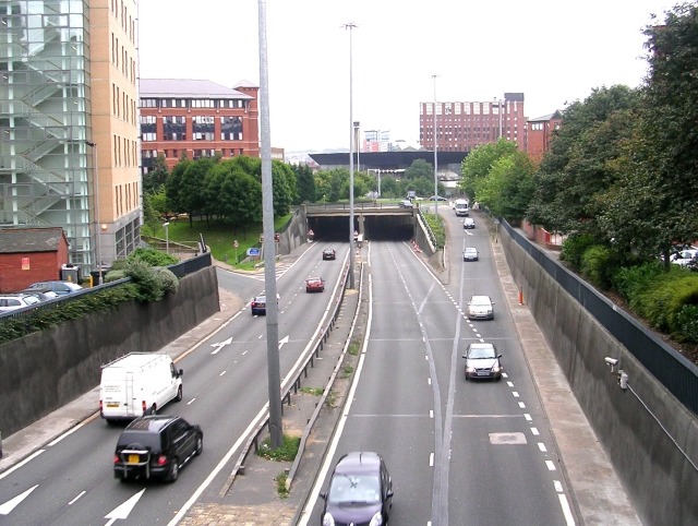 Inner Ring Road - near Clarendon Wing of Leeds General Infirmary